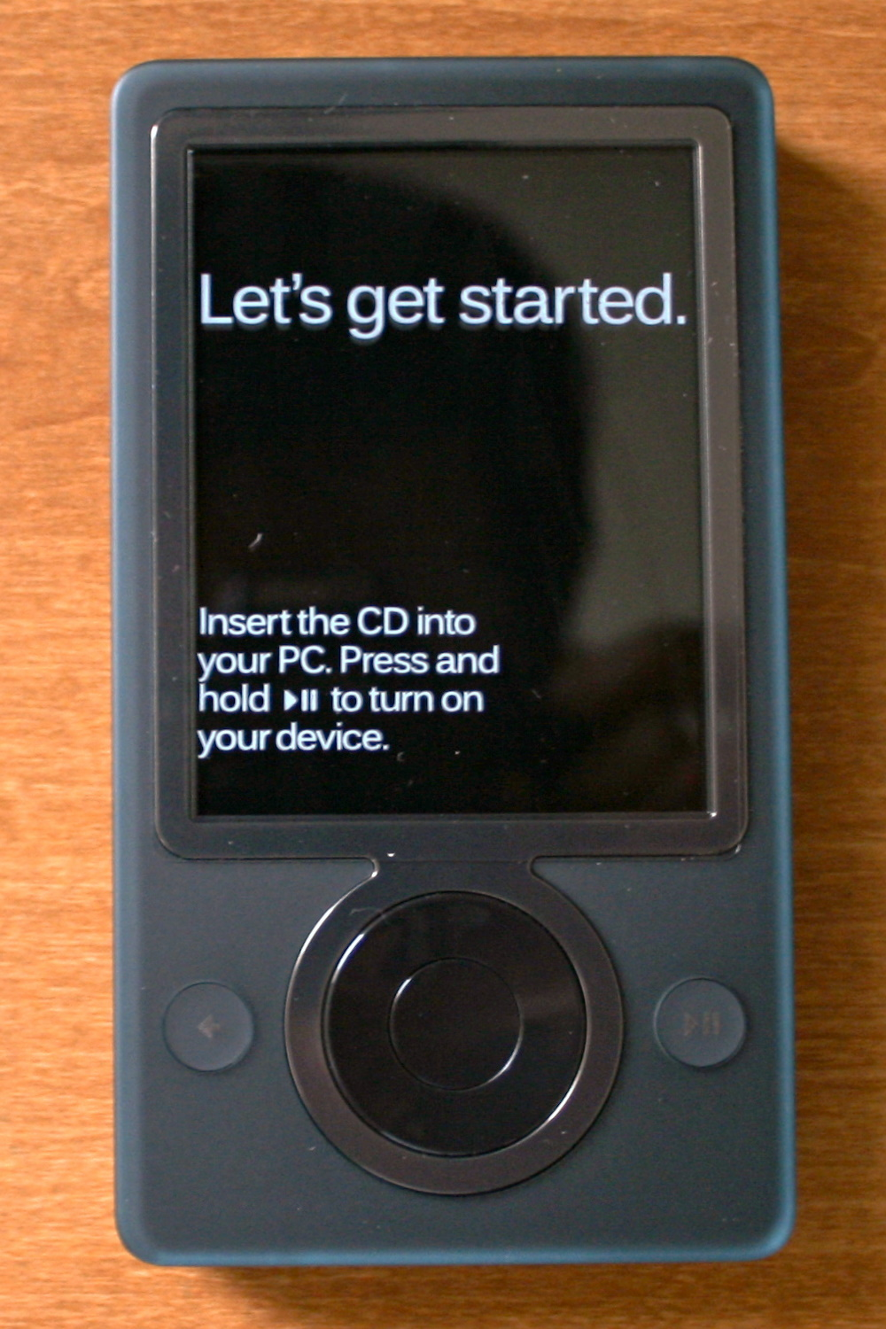 Microsoft Zune.